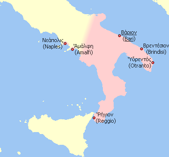 The Catapanate of Italy in the early 11th century. Modern English names for depicted cities are provided alongside the actual medieval ones.